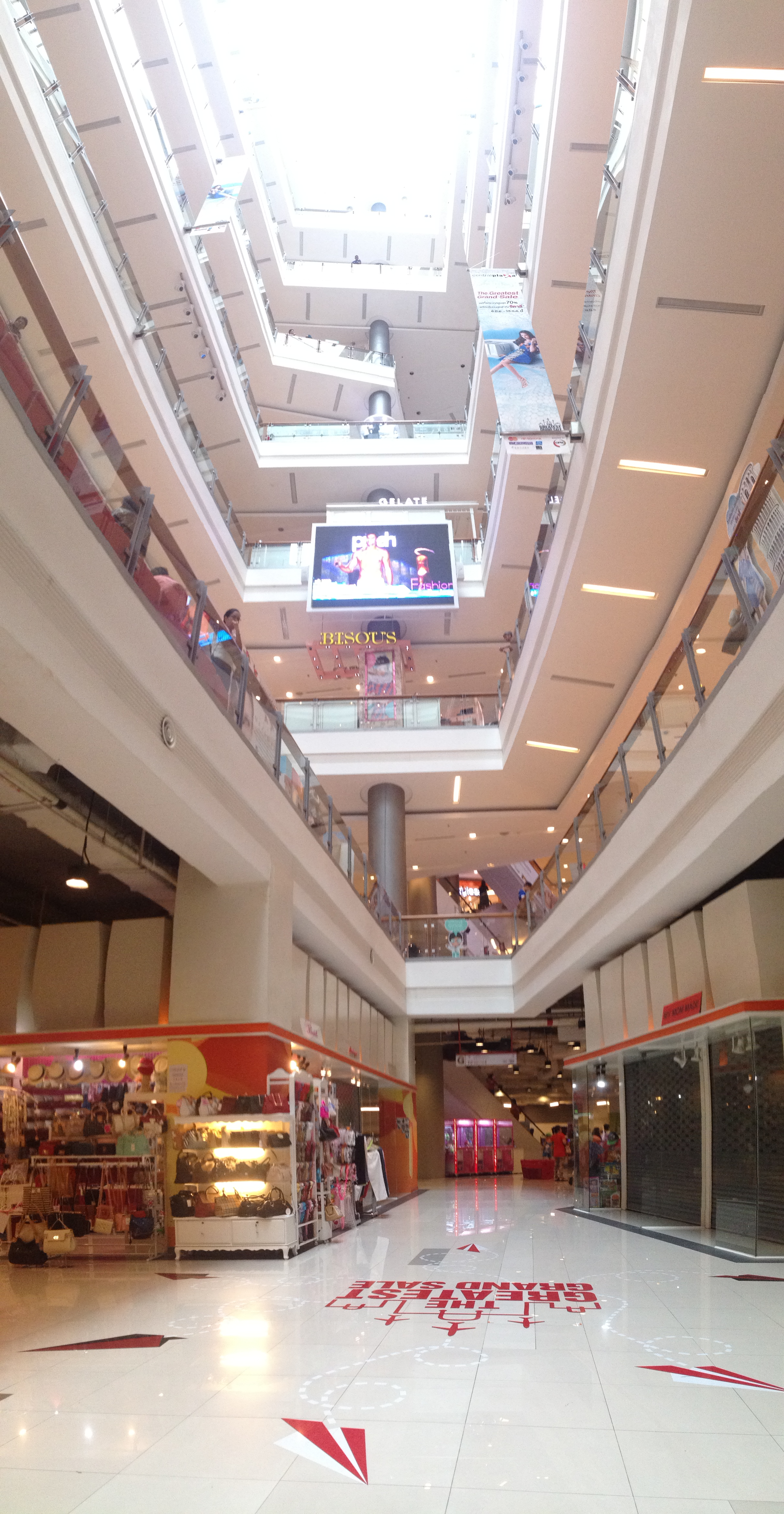 interior of CentralPlaza Chaengwattana